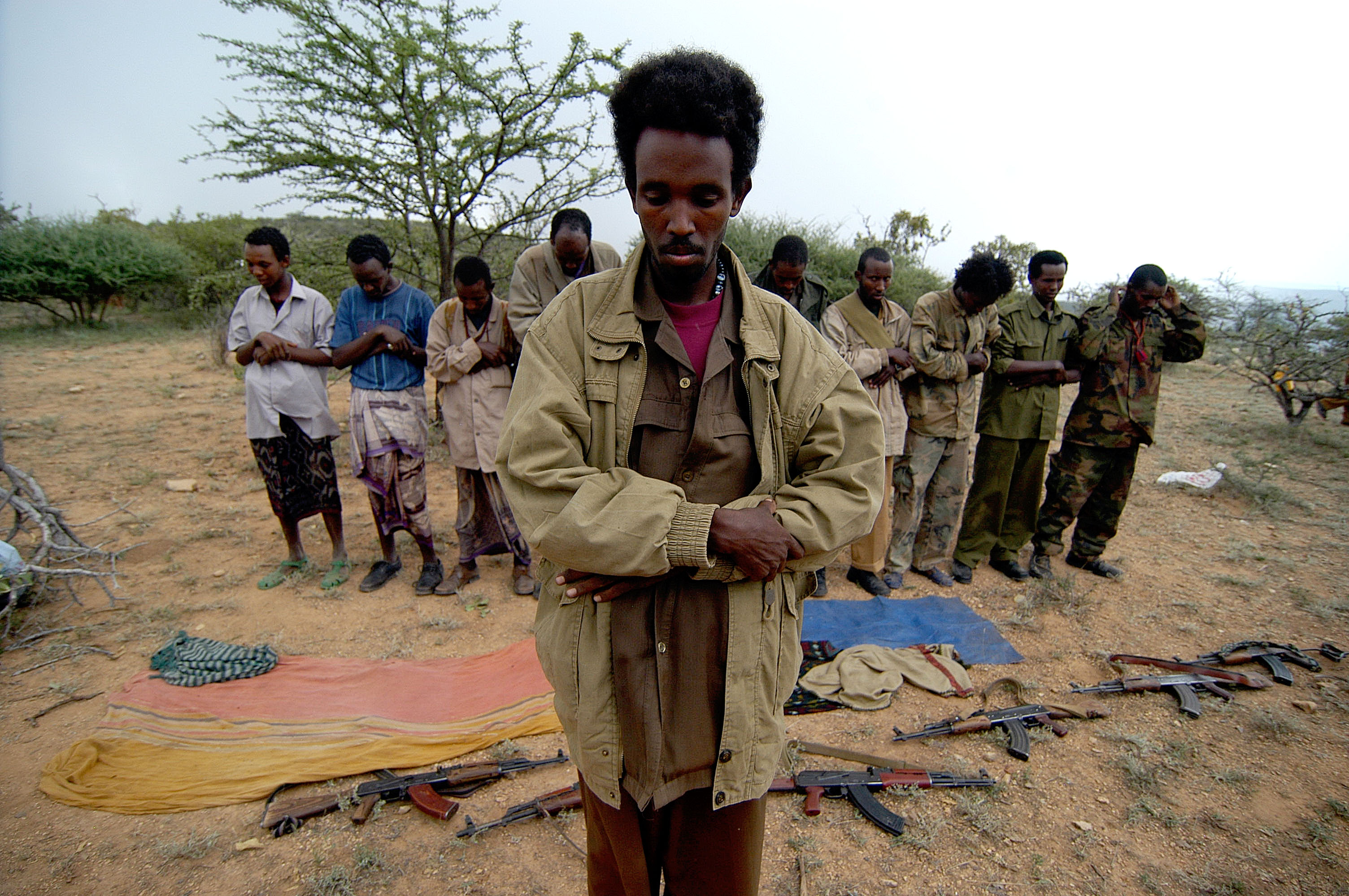 ONLF rebels are taking time off from fighting by praying to Allah. All fighters from that rebellion are Muslim.